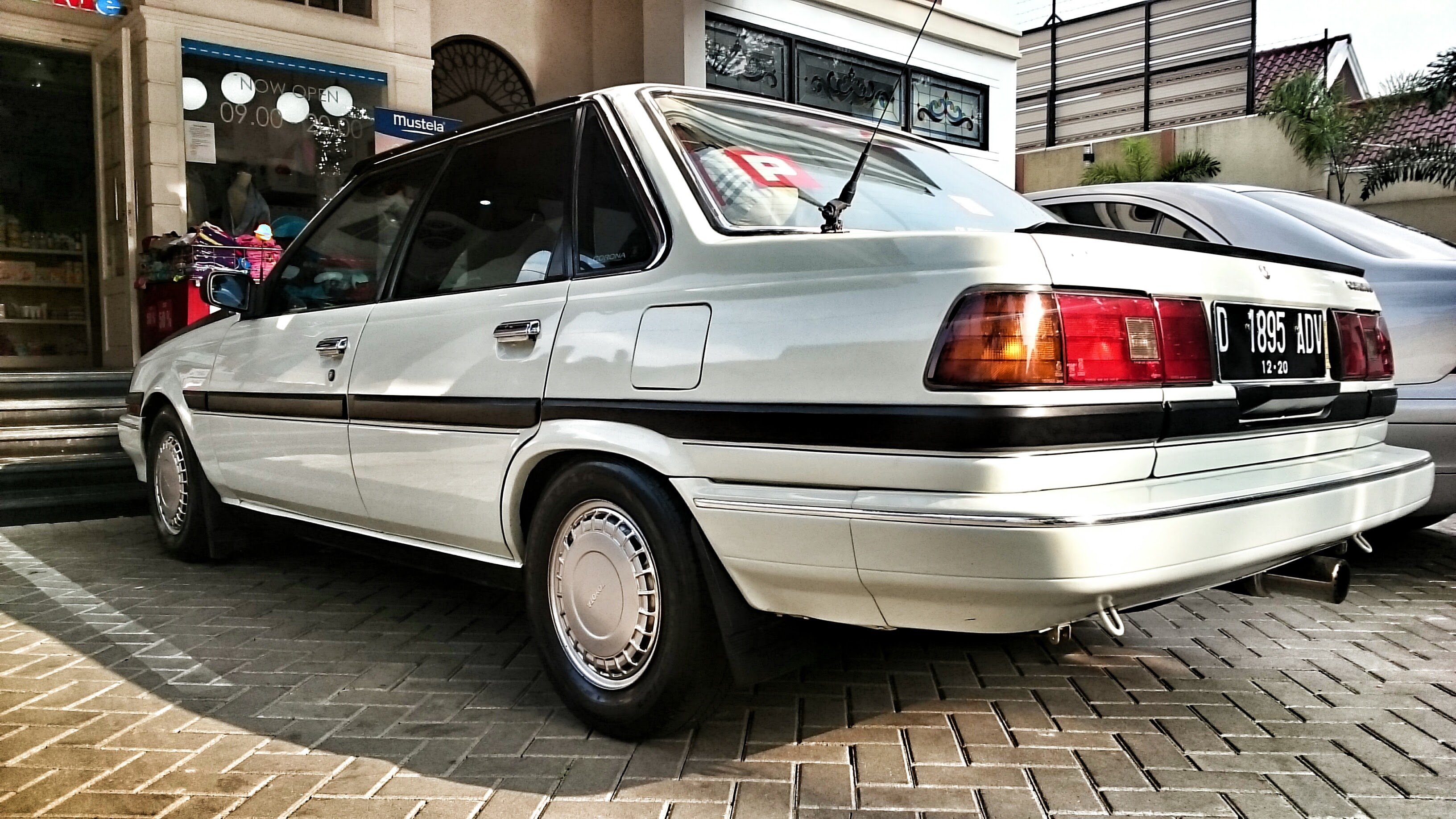 Rear view of 1986 Toyota Corona EX-Saloon (AT151) with original steel wheel cap